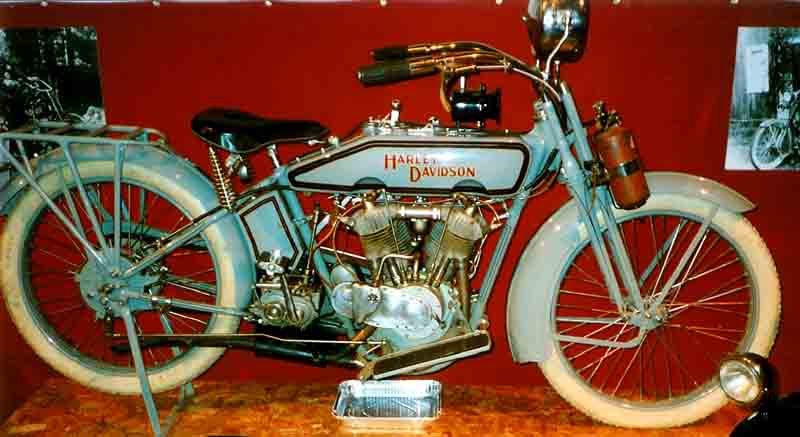 Harley-Davidson 1000 cc HT 1916